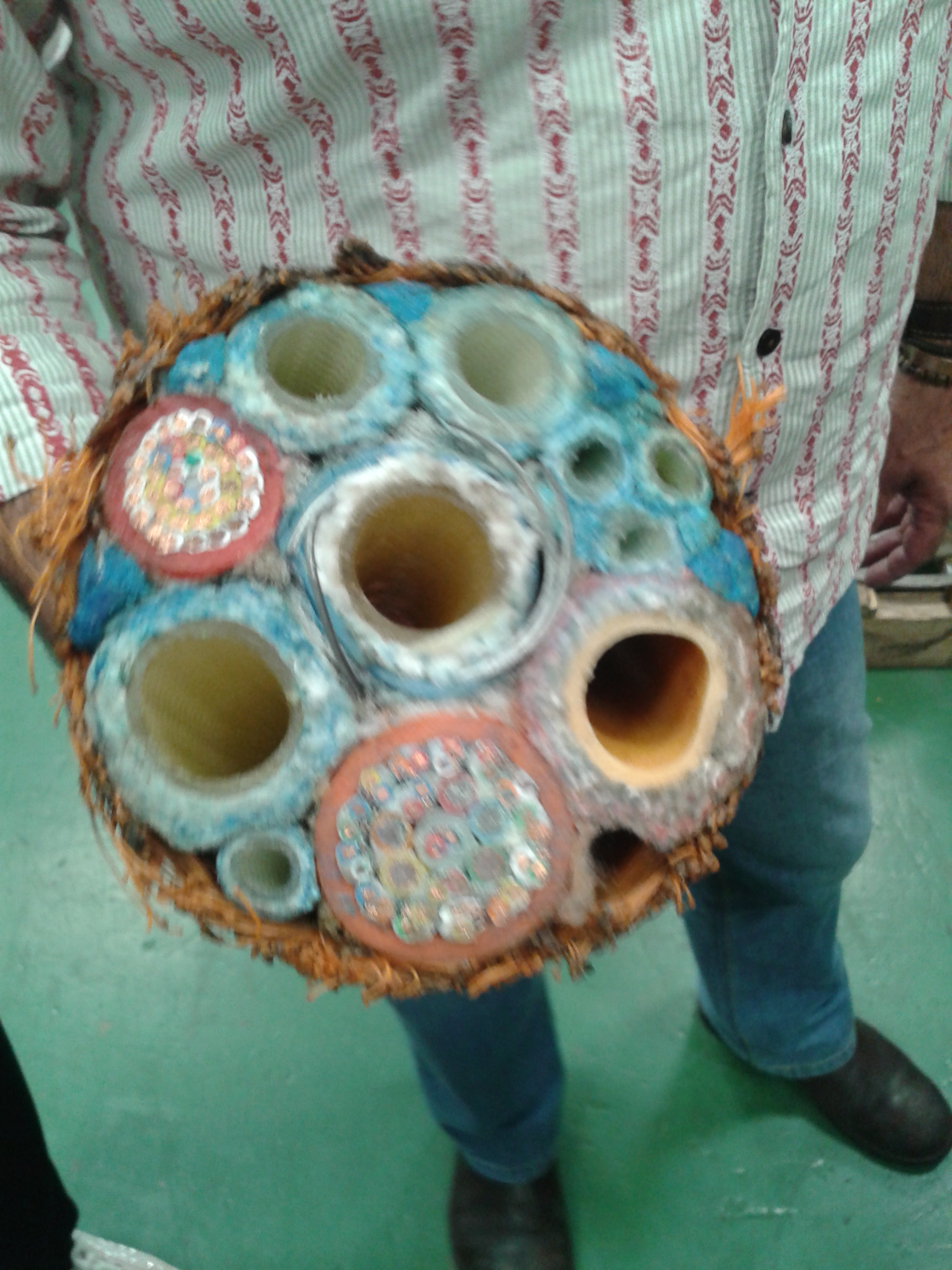 Cross section of a closed bell umbilical cable assembly showing the hoses and electrical cables